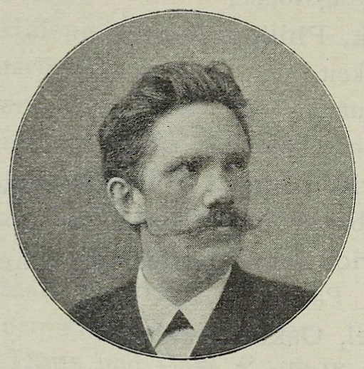 German painter Richard Friese in 1897